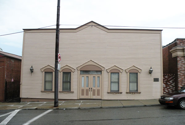 Picture of former upper station of the Troy Hill Incline, located at 1733 Lowrie Street in the Troy Hill neighborhood of Pittsburgh, Pennsylvania, on August 21, 2010. It is on the List of Pittsburgh History and Landmarks Foundation Historic Landmarks. A sign on the building says the following: "Historic Site - Troy Hill Incline - This is the upper station of the first incline in Allegheny, completed in 1887 and out of service by 1898. The engineer was Samuel Diescher, a specialist in incline construction. The total length was 370 feet on a 47-percent gradient. Both freight and passengers were carried, and the incline was used especially by Pennsylvania Railroad workers who lived on Troy Hill. Pittsburgh History and Landmarks Foundation"